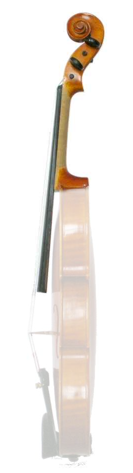 An example of a griff